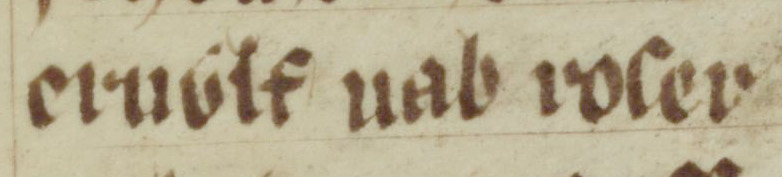 An excerpt from folio 67v of Oxford Jesus College MS 111. The excerpt concerns Arnulf de Montgomery (died 1118×1122). The excerpt reads: "ernỽlf uab roser".